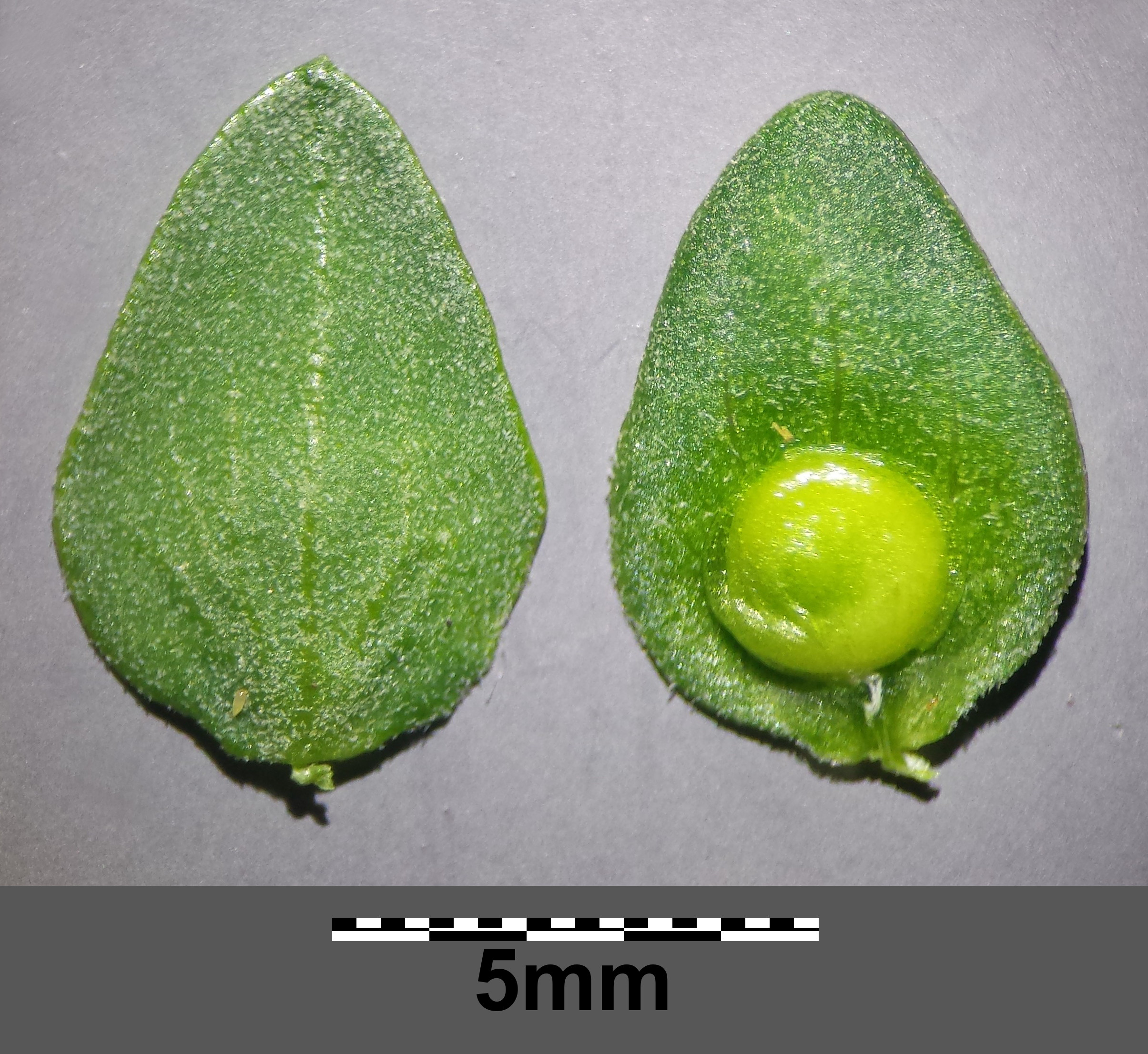 Female flowers with prophylls, on the right front prophyll removed Taxonym: Atriplex oblongifolia ss Fischer et al. EfÖLS 2008 ISBN 978-3-85474-187-9 Location: Schwarzlackenau, Vienna-Floridsdorf - ca. 160 m a.s.l. Habitat: ruderal, dry meadows